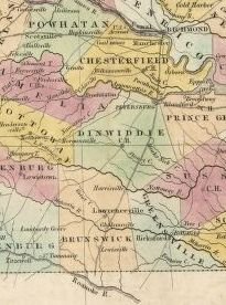 Includes statistical tables of population according to the census of 1820. Population data for towns and counties pasted on verso of front cover. Inset: Plan of Washington City & Georgetown. National Endowment for the Humanities Grant for Access to Early Maps of the Middle Atlantic Seaboard. Prime meridians Washington and Greenwich. Relief shown by huaraches.